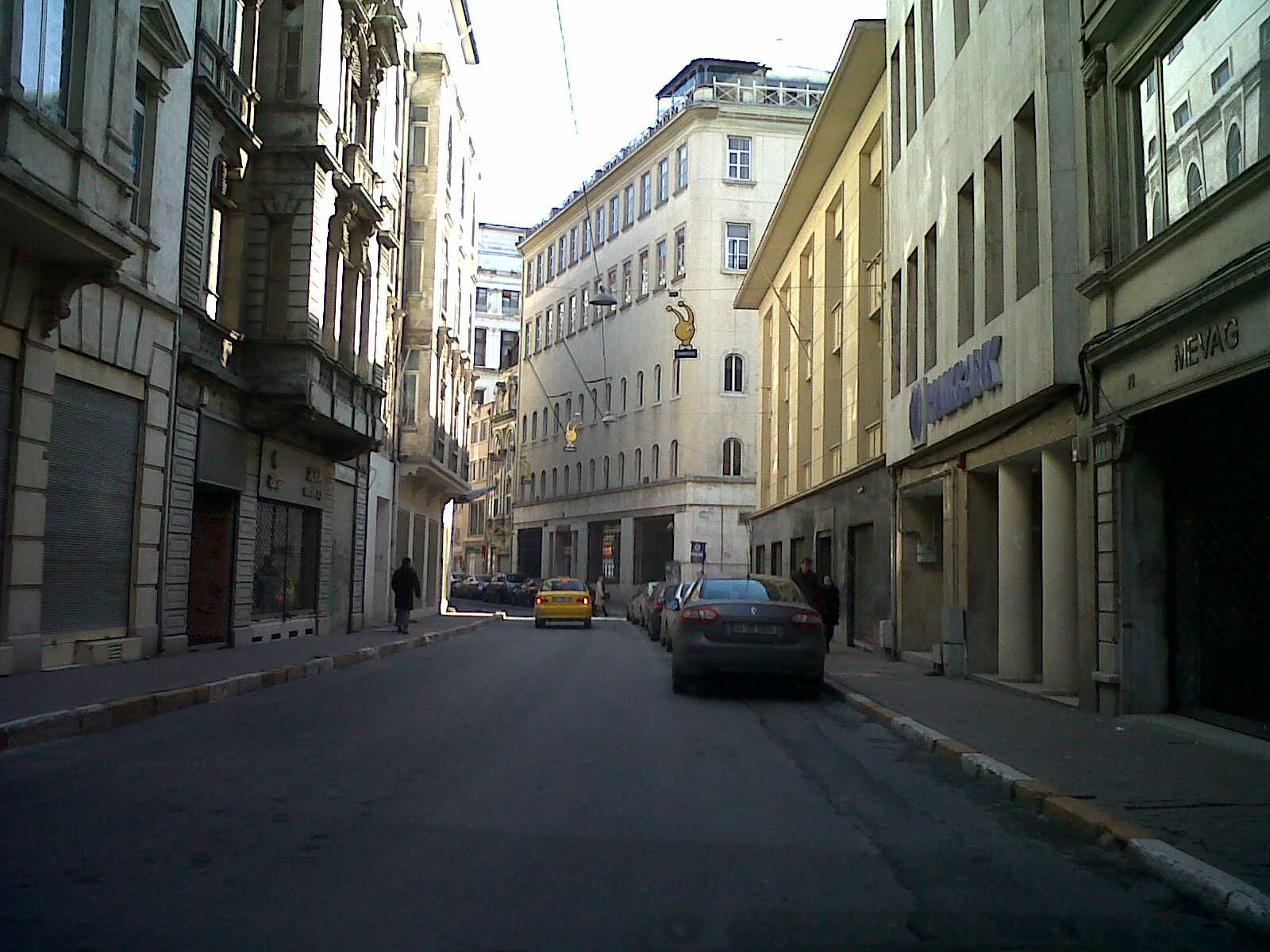 Bankalar Cad Şub 2012